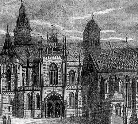 Historical view of the St. Michael Chapel, Košice, Slovakia